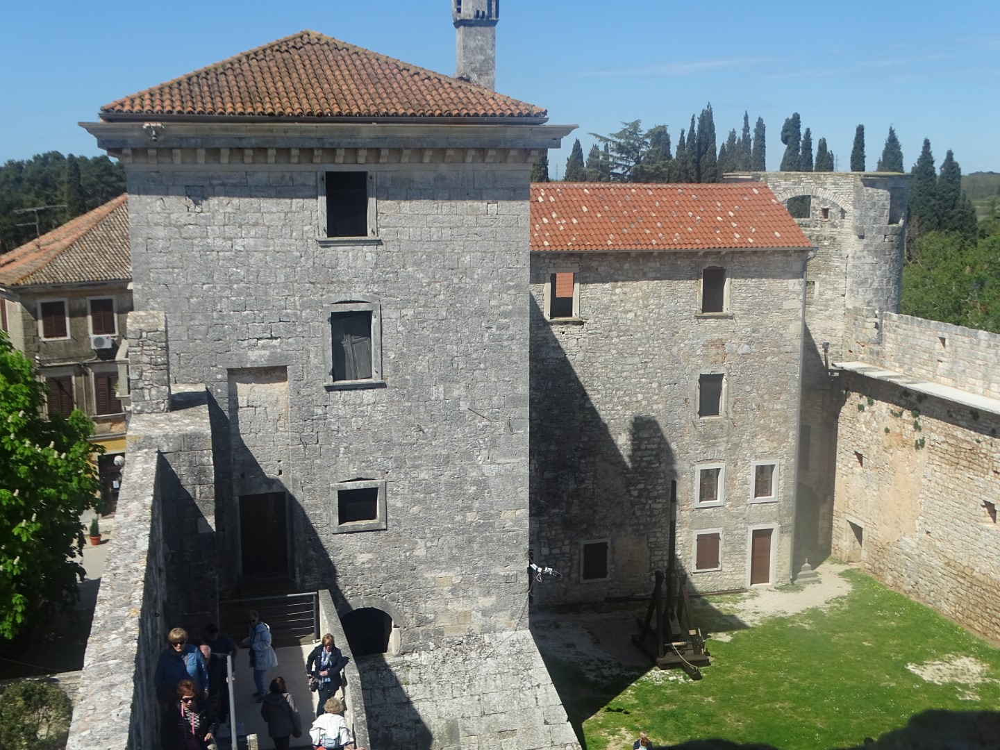 Kaštel Grimani, Svetvinčenat, Croatia